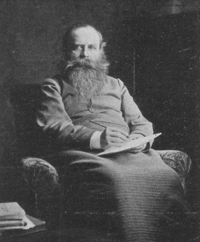 The German philosopher Eduard von Hartmann.